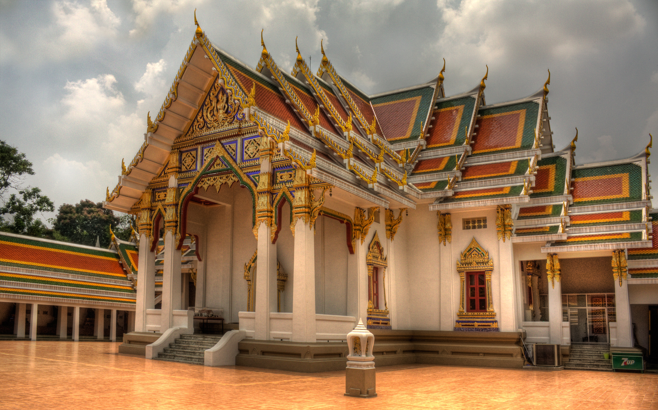 Phra Ubosot of Wat Phra Sri Mahathat Woramahawihan